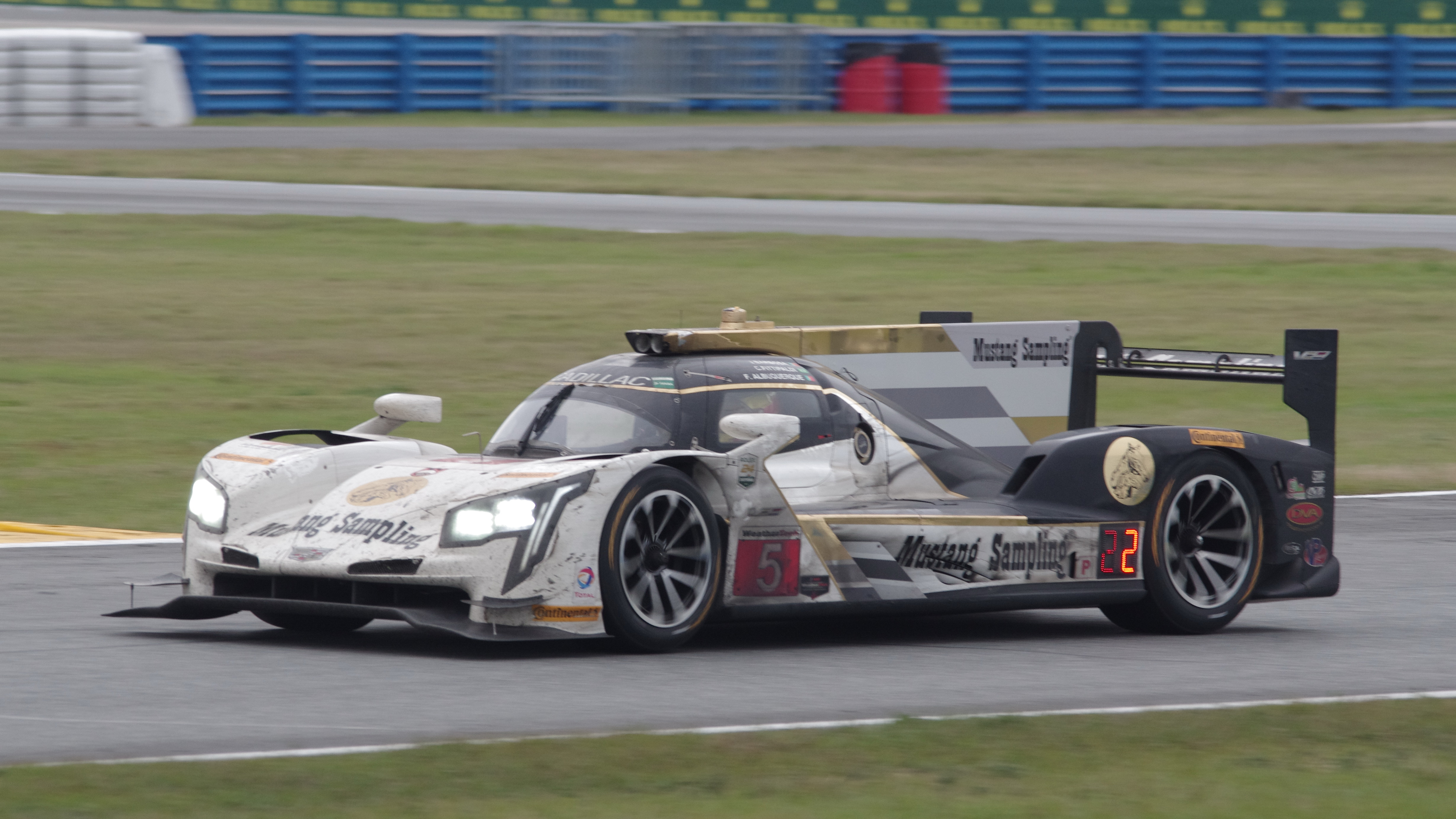 Daytona 24, 2017 - #5 Mustang Cadillac DPi VR - Barbosa, Albuquerque, Fittipaldi